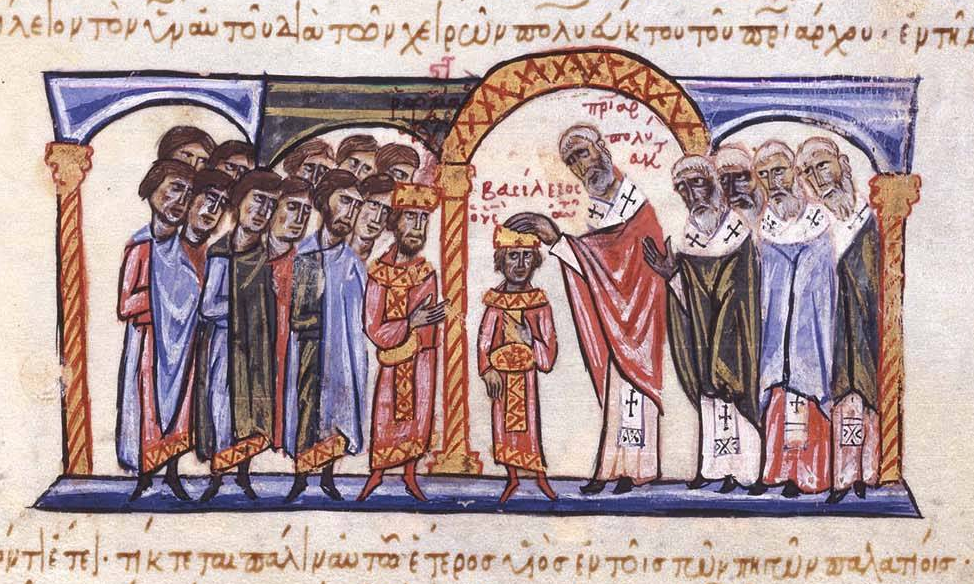 Coronation of Basil II as co-emperor to his father, Romanos II, by Patriarch Polyeuctus, on 22 April 960